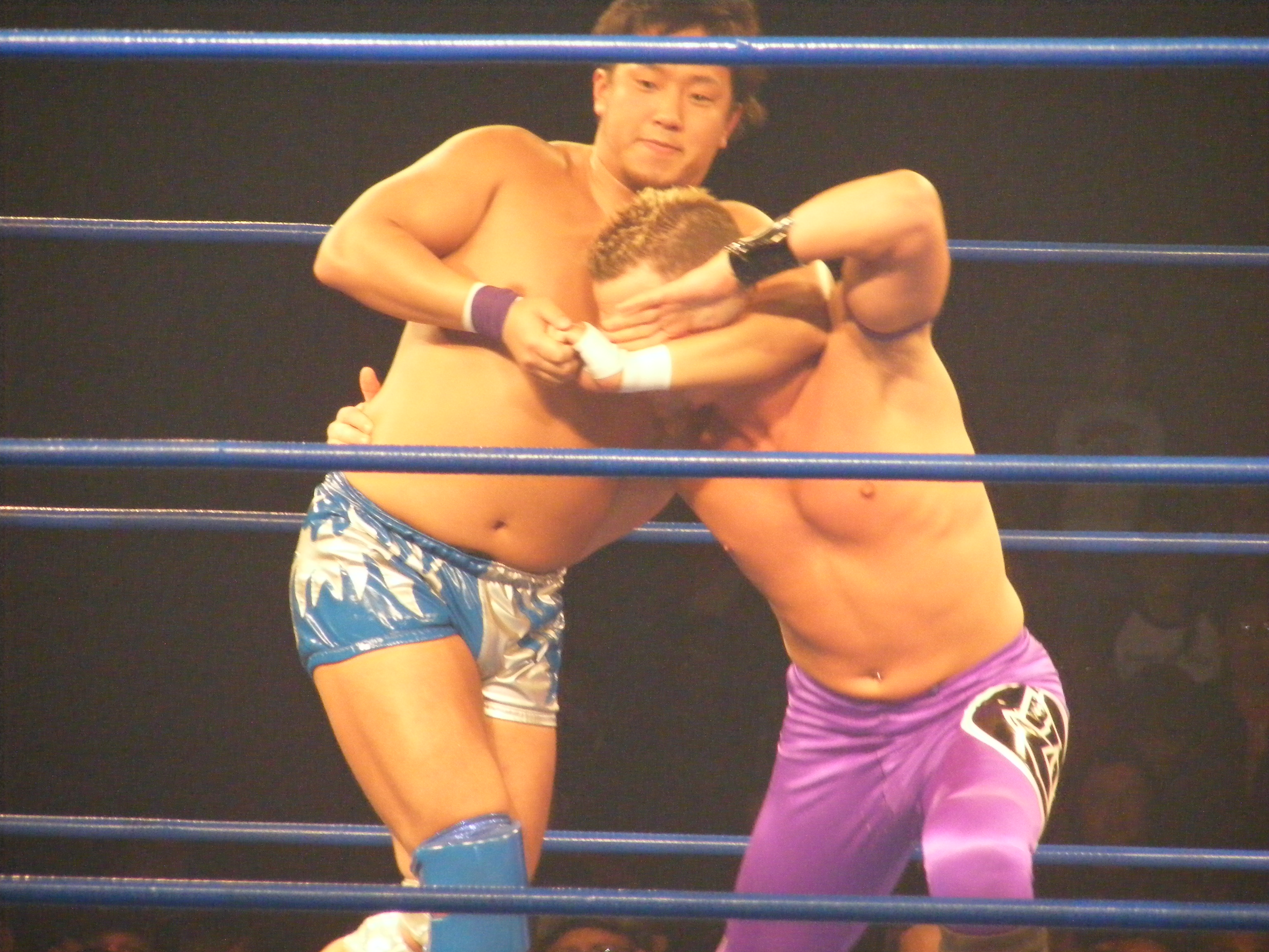 Professional wrestler Daisuke Harada holding Icarus in a headlock at Chikara King of Trios 2011.